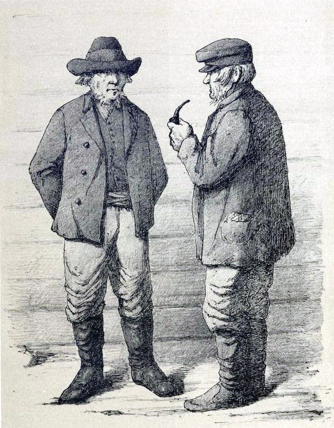 Freeholders of Ruokolahti, Finland